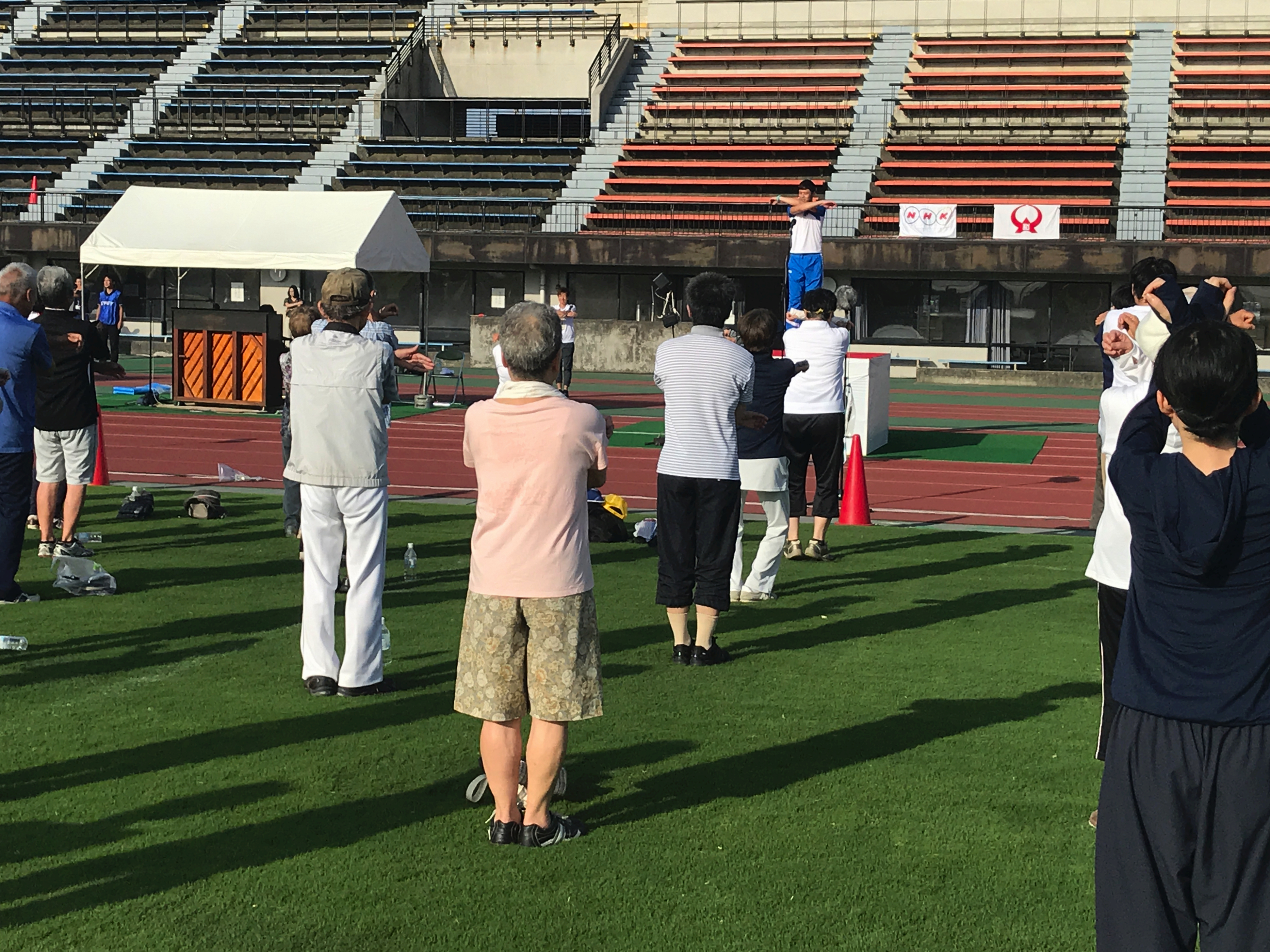 A live Radio Calisthenics summer tour at Yamato Sports Center Stadium in Yamato City, Kanagawa Prefecture. (Leader: Yoshikatsu Nishikawa Accompanist: Shigemi Haba)